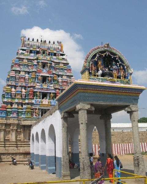 brahma temple in tirupattur